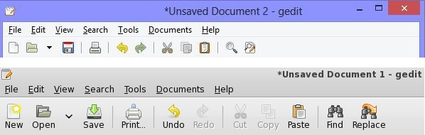 The main tab in the Gedit, at the top in Windows 8, below, in Linux.